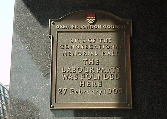 Labour Party Plaque from Caroone House, 14 Farringdon Street, London EC4, (demolished 2004). The plaque has been reinstated on the wall of the redevelopment of the Caroone House site (5 Fleet Place).